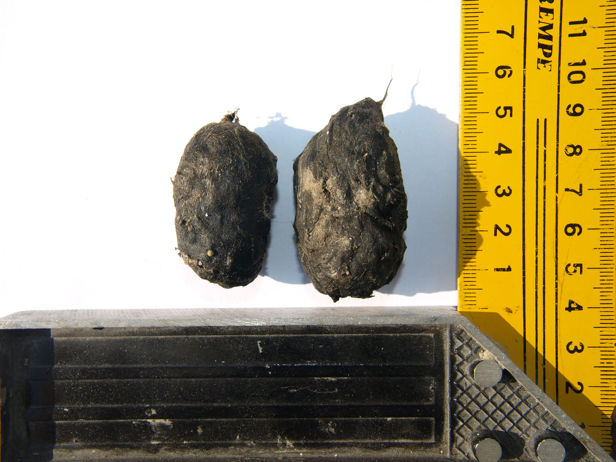 Pelett